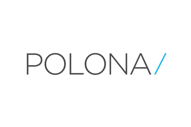 Polona's logo